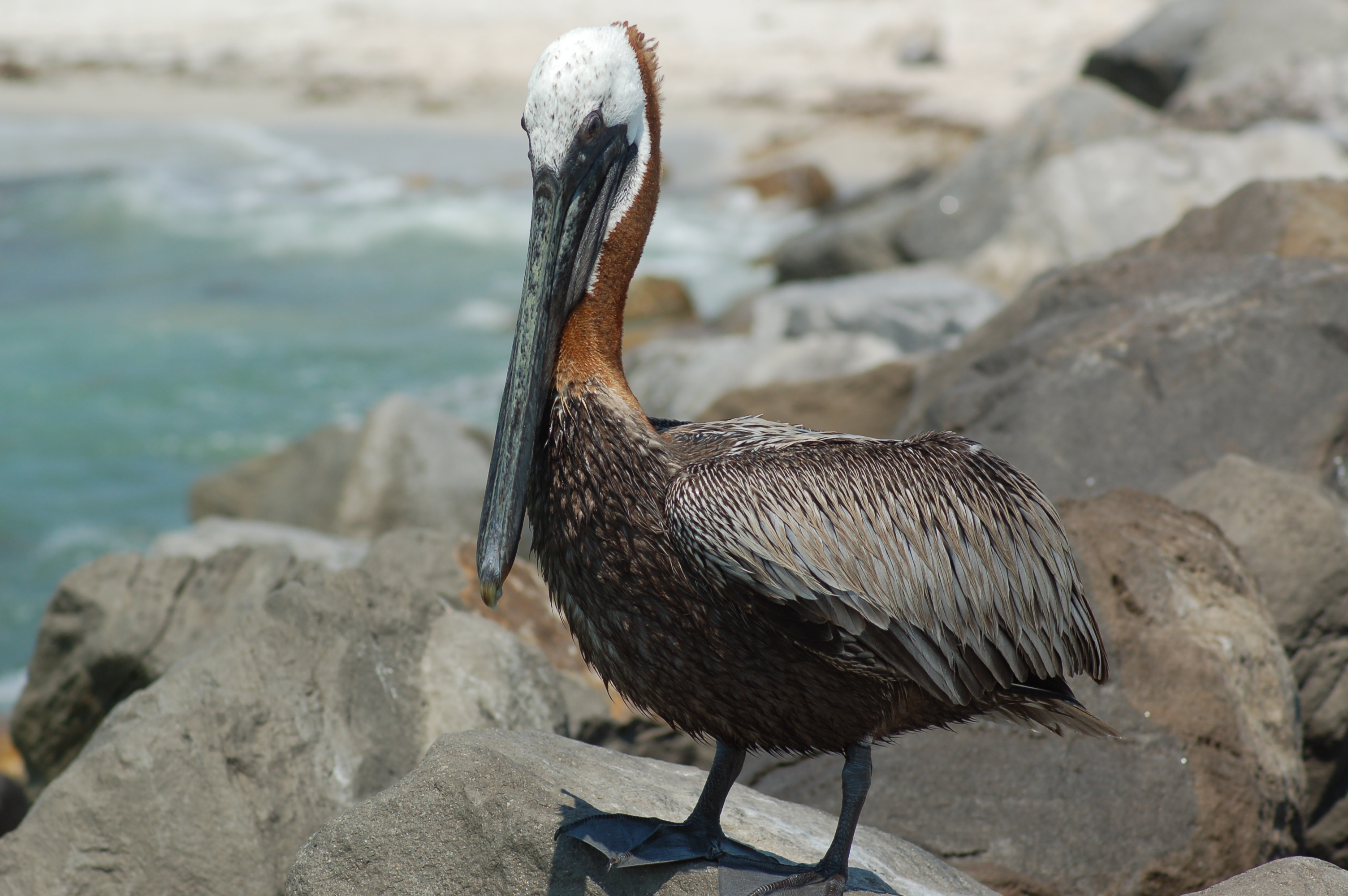 Brown Pelican. Near St Pete's Beach, Florida USA.